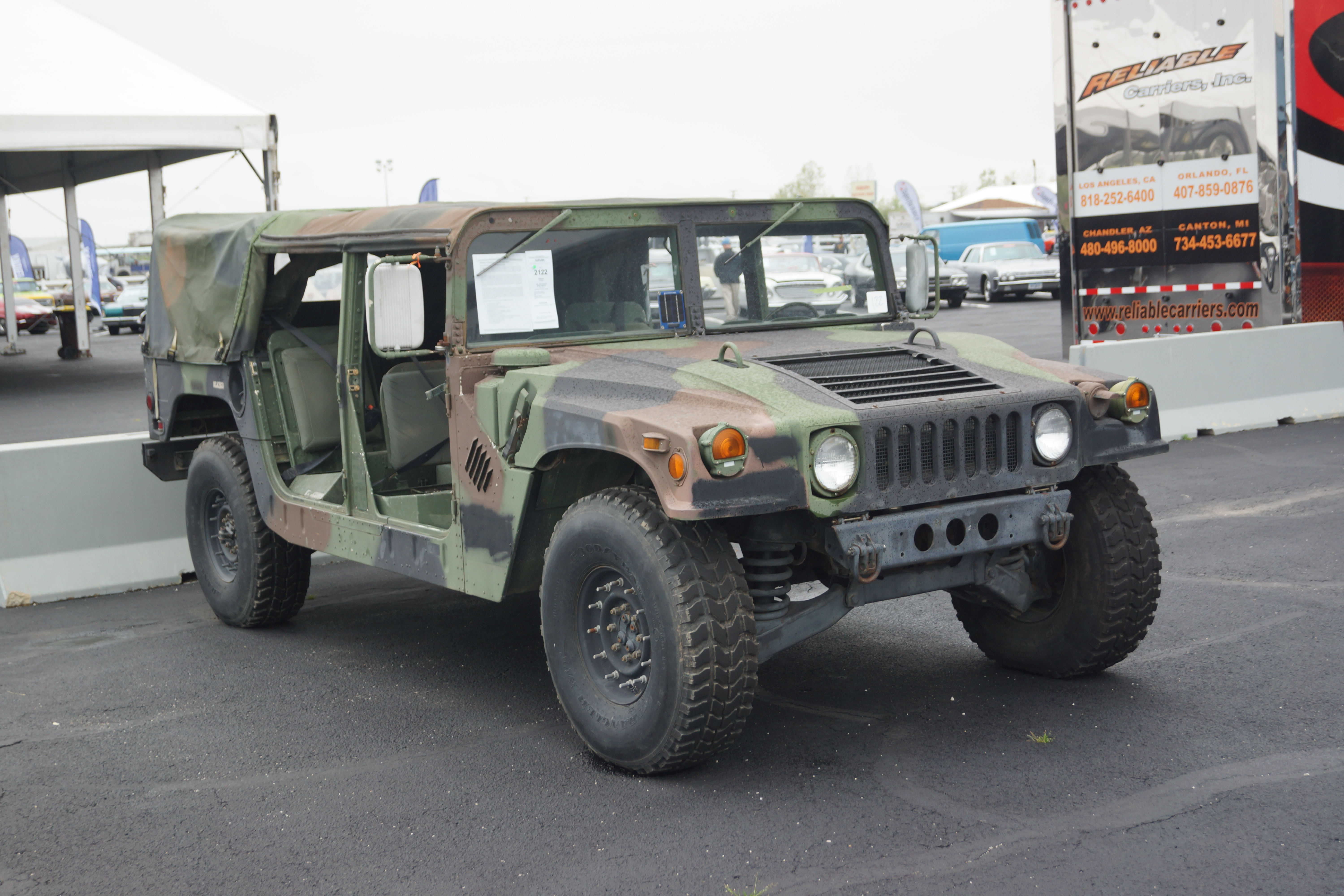 Auburn Spring RM Sotheby's Auctions America Auburn Auction Park Auburn, Indiana May 2017 ******************************************************************************* Click here for more car pictures at my Flickr site. Or here for my Car Crazy Tumblr site. Or on Twitter @DVS1mn.